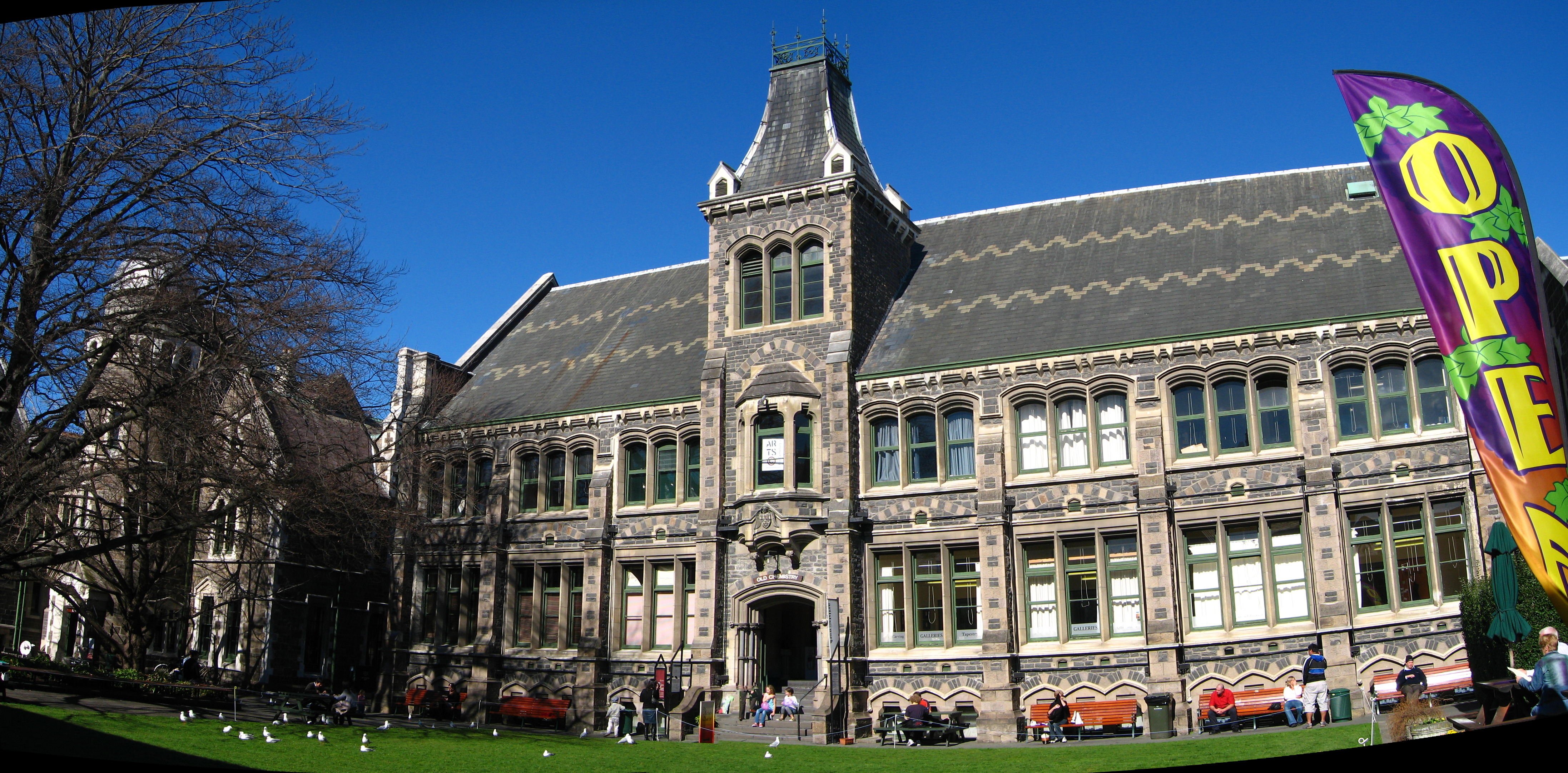 Old Chemistry Building of Canterbury College (now Christchurch Arts Centre), Christchurch, New Zealand. New Zealand Historic Places Trust Register number: 7301.